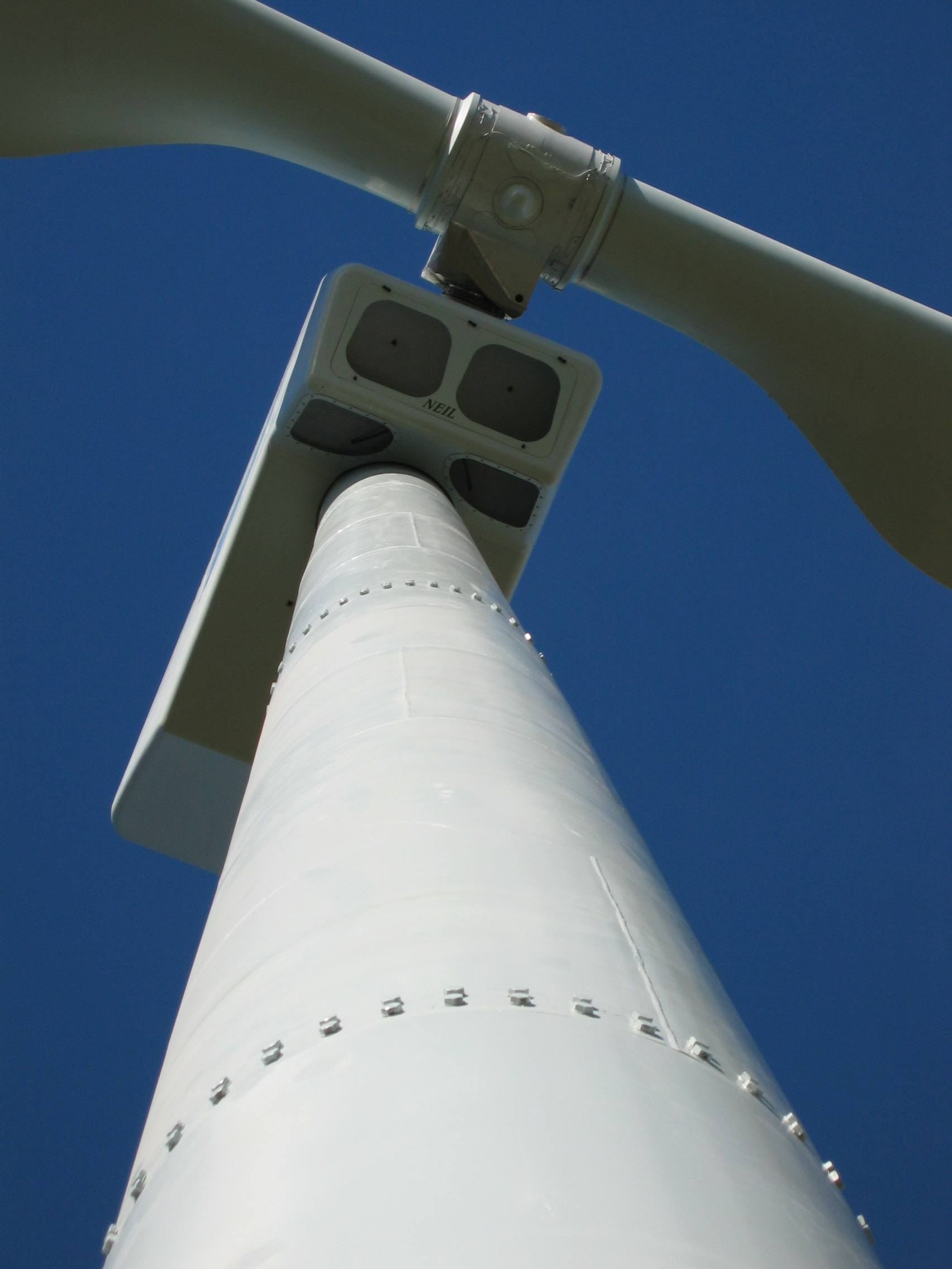 Windflow Technology Ltd's prototype windmill, erected in Gebbies Pass, Banks Peninsula, New Zealand. Named Neil after one of the company's founders, Neil Cherry, who died of motor neuron disease (a.k.a. ALS) around the time of its construction.